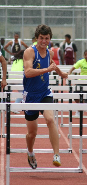 Johnathan Cabral competing in the 2011 CIF prelims.